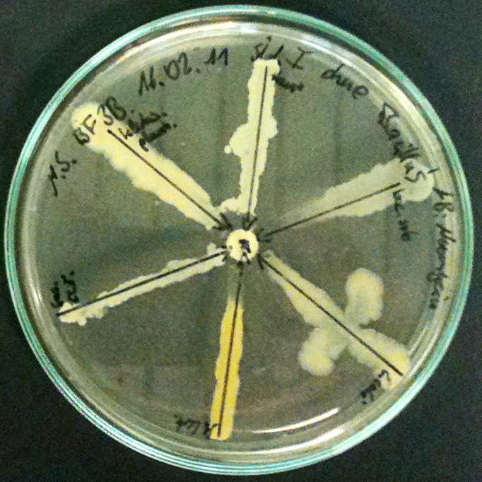 In this antibiogram the effect of the antibiotic Neomycin is tested on different bacteria. An inhibiting effect is indicated, if the bacteria does not grow close to the antibiotic (in the middle).